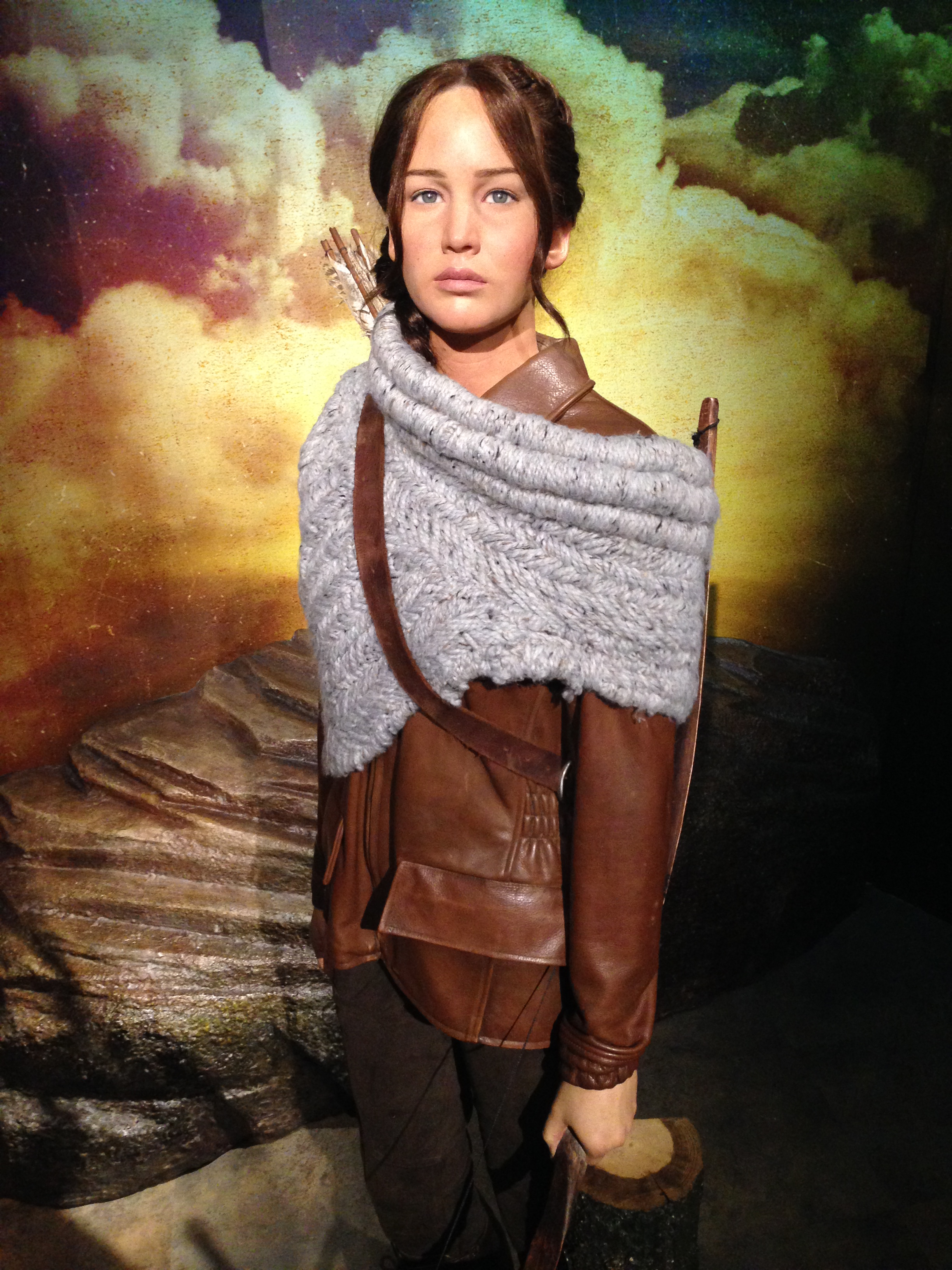 Katniss Everdeen (Jennifer Lawrence) at Madame Tussauds London - November 1st, 2016